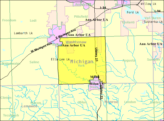 Map of York Charter Township